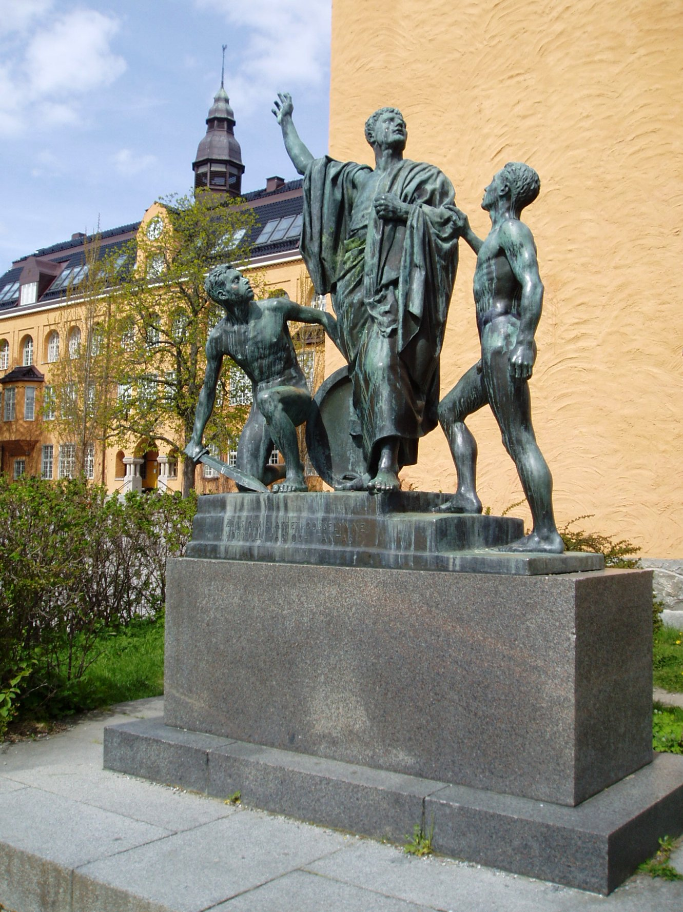 Sculpture in Djursholm, Sweden